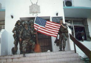 US soldiers secure La Comandancia in Panama during Operation Just Cause, December 1989. Taken on January 17, 2004 from 's Message Forums.